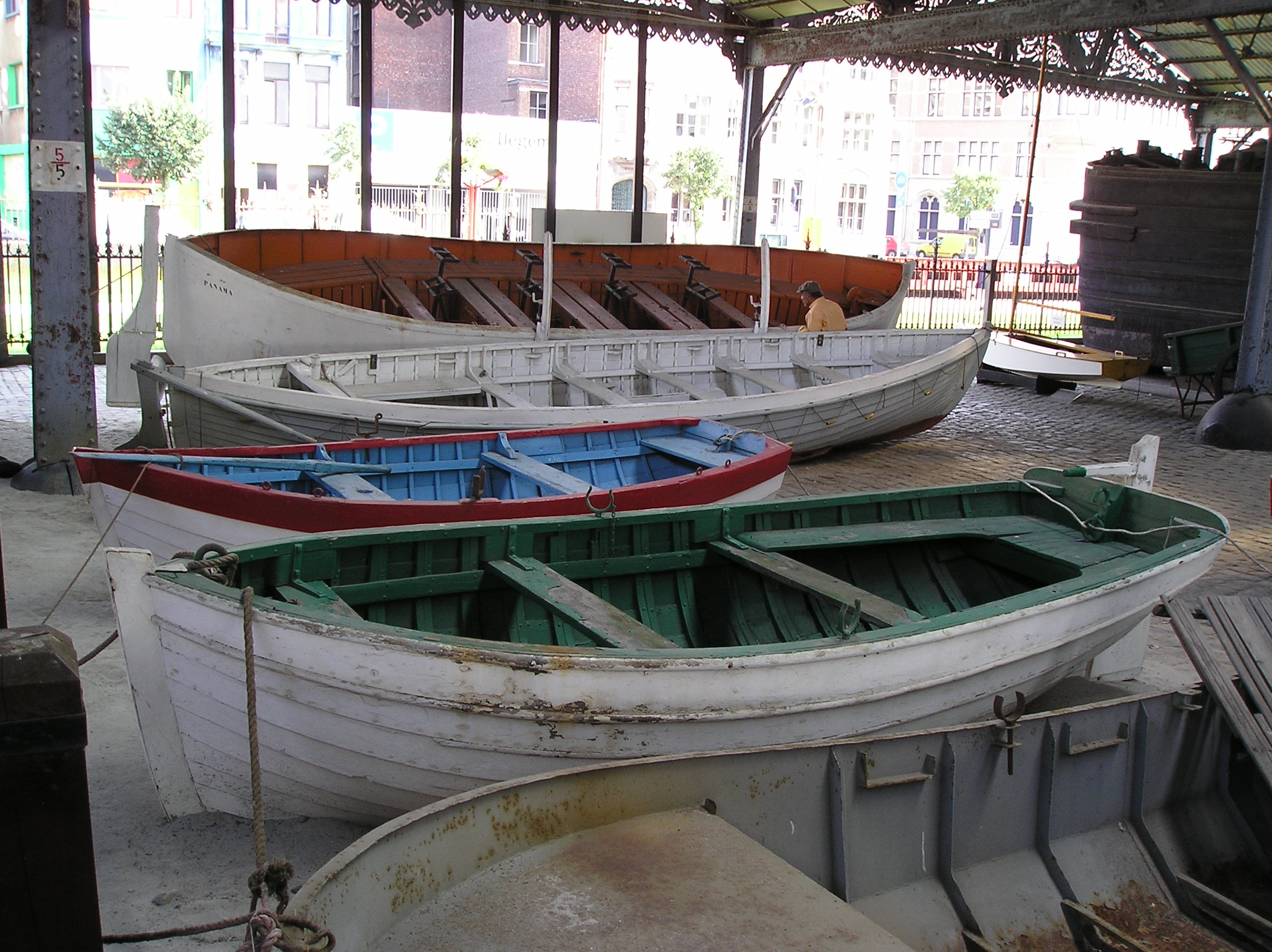 Various boats, Antwerp maritime museum